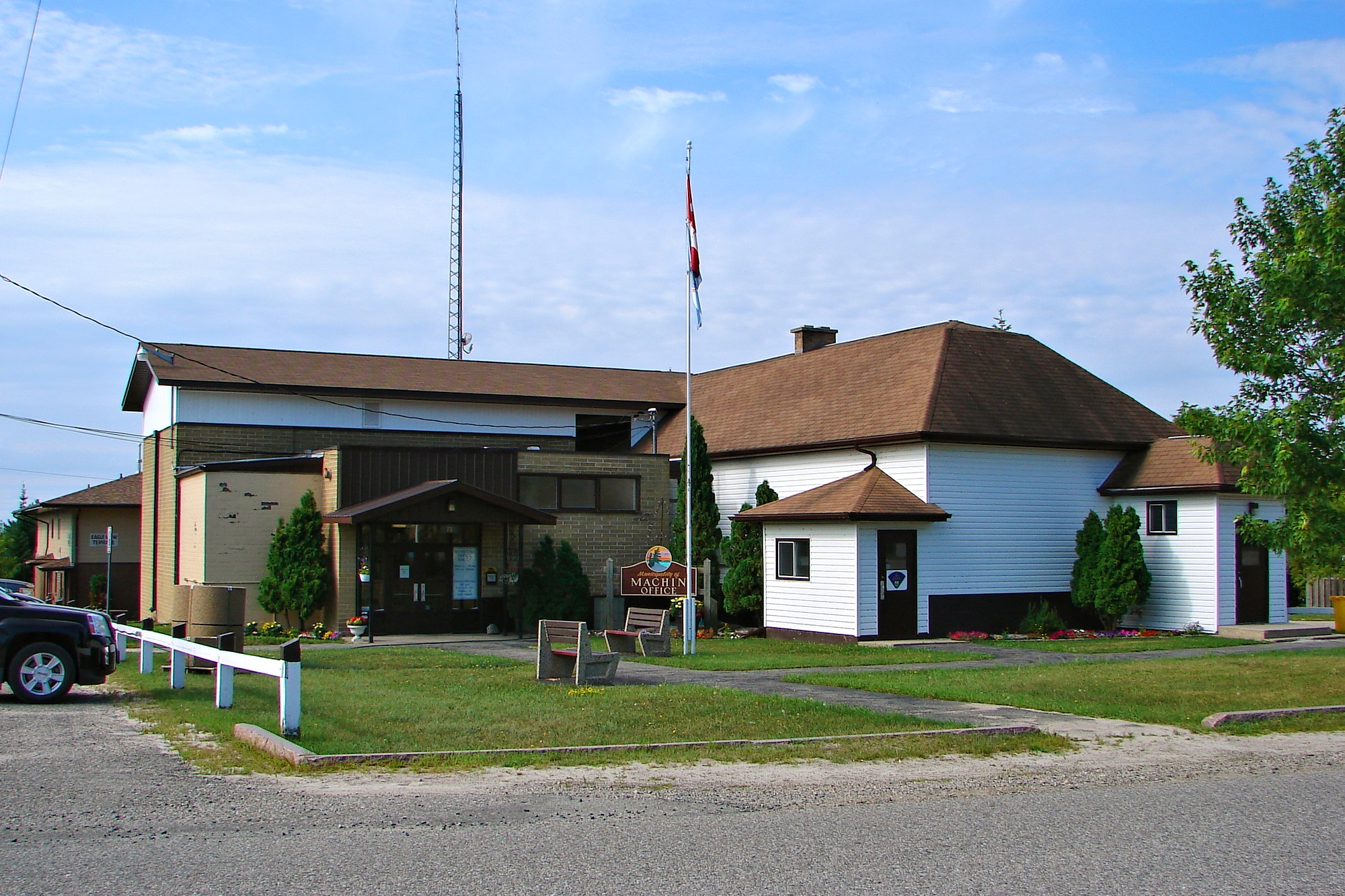 Municipal office of Machin Township, Ontario, Canada